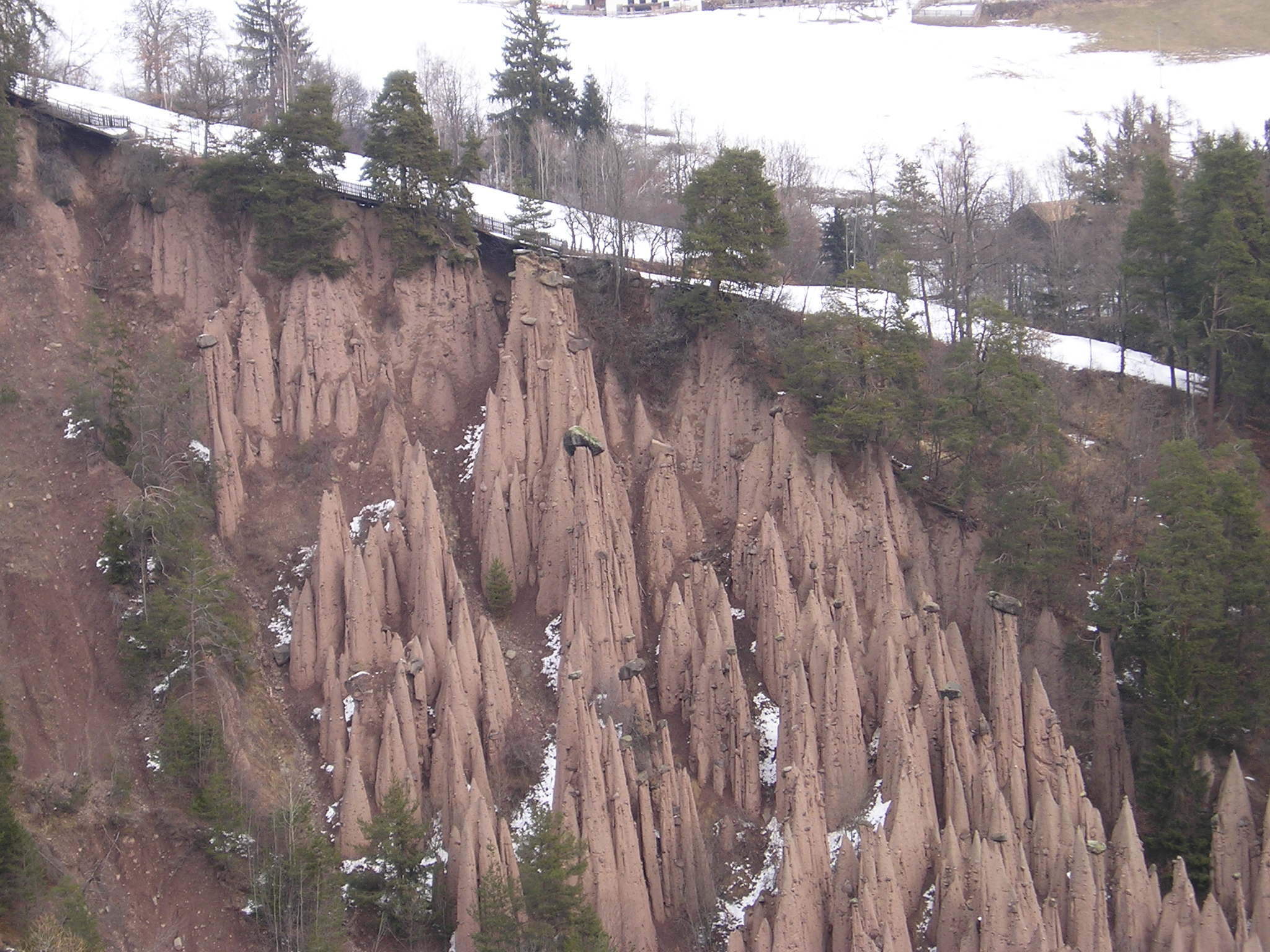 Earth pyramids in Renon-Ritten, South Tyrol.